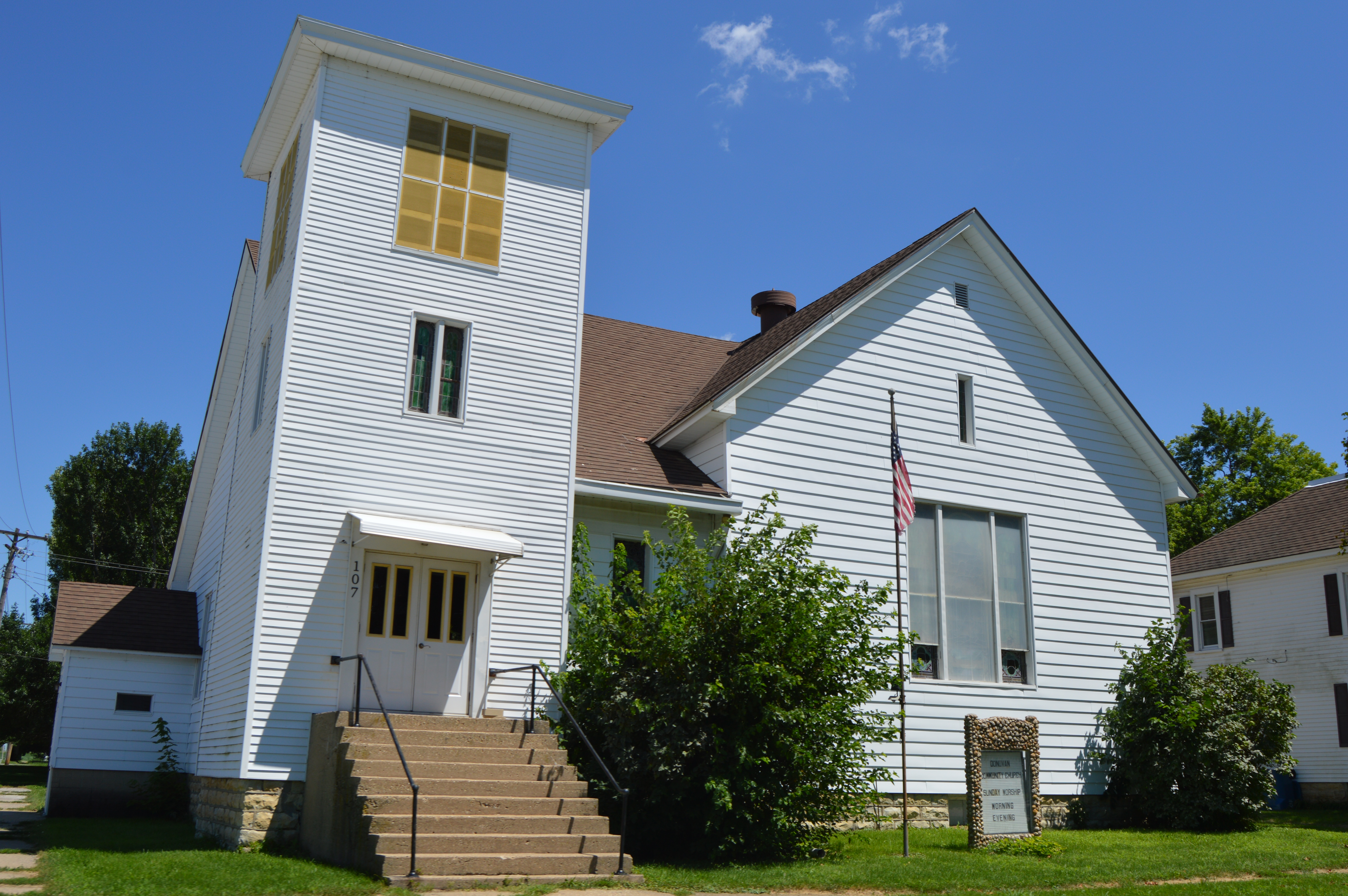 Front of the Donovan Community Church, located at 107 Raub Avenue (U.S. Route 52) in Donovan, Illinois, United States.